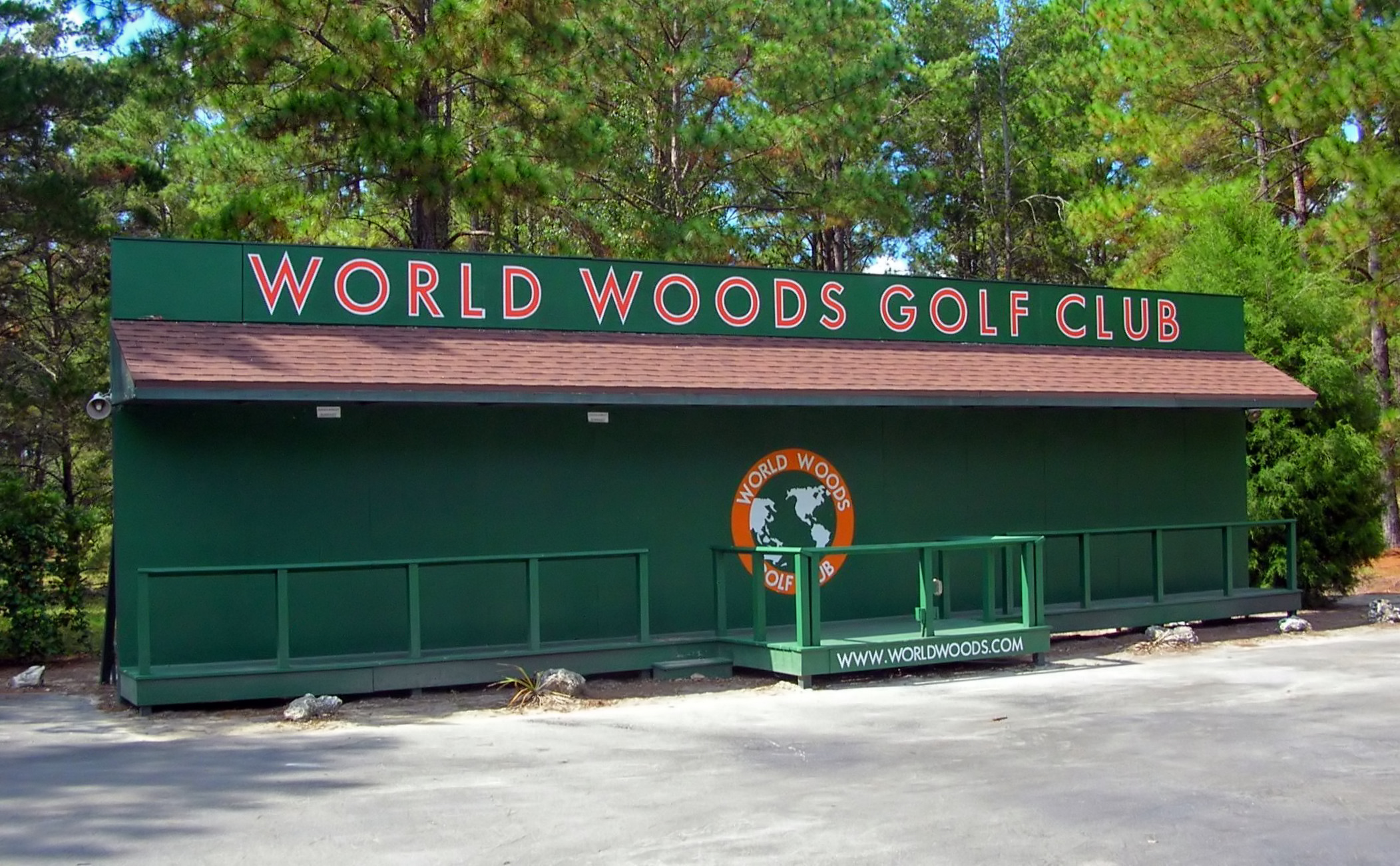 World Woods Golf Club, Brooksville, Hernando County, Florida, USA